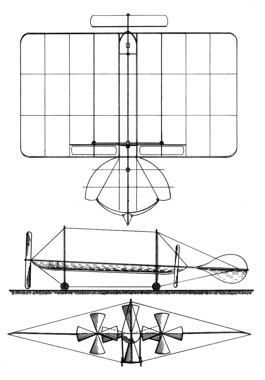 Drawing from A. Mozhaisky's Patent, 1881 (died 1890)